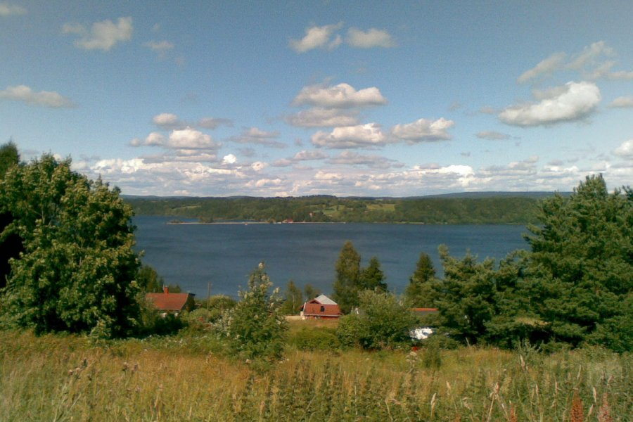 View of Øyeren and Sandstangen in Trøgstad.